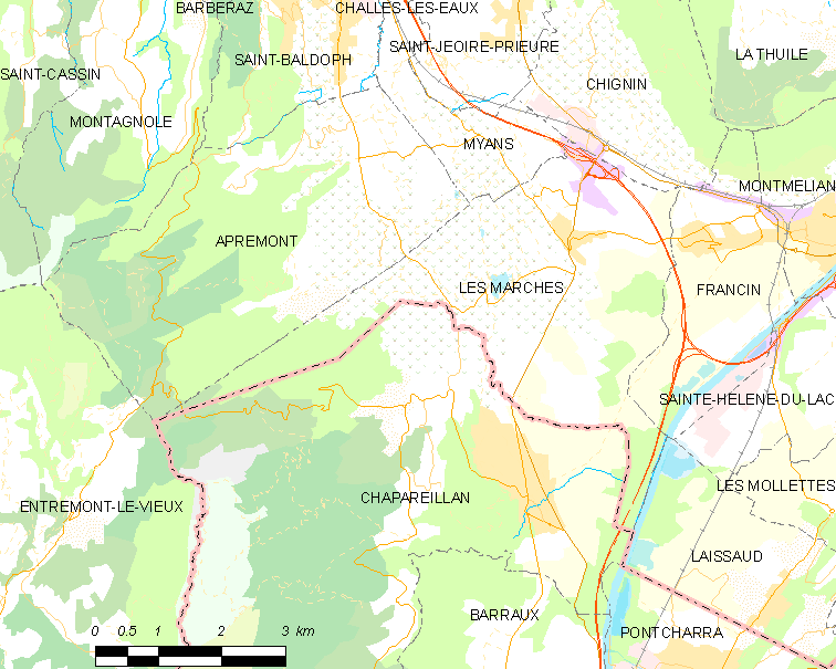 Map of French municipality